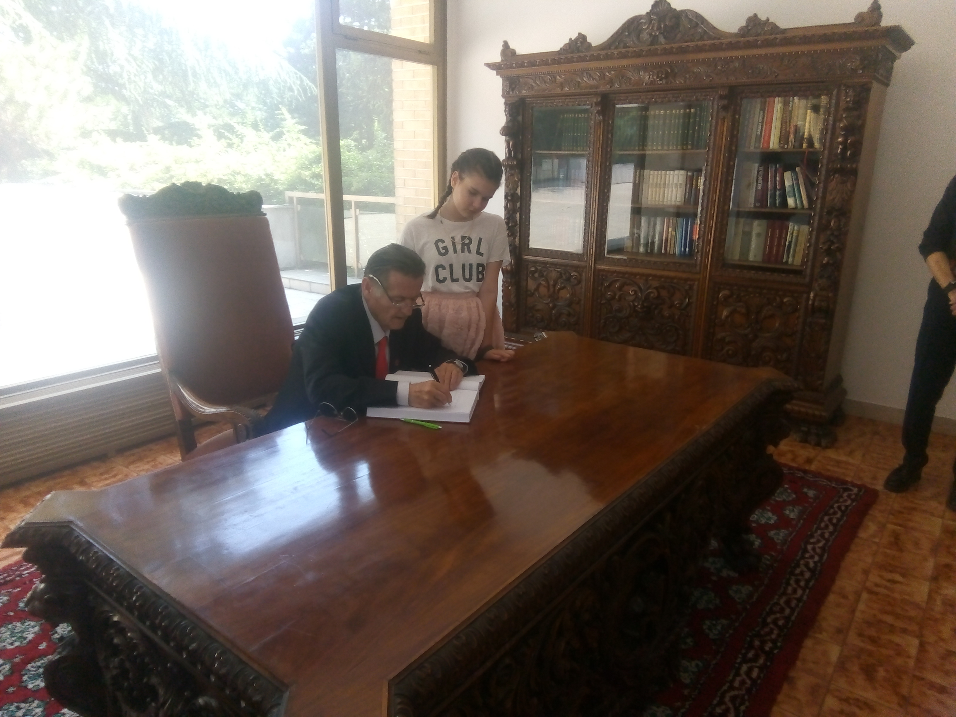 Joška Broz in the House of Flowers